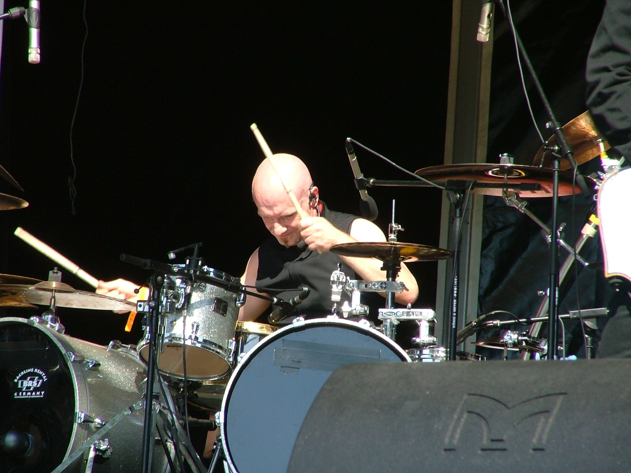 German symphonic metal band Krypteria at the Metalcamp in Tolmin